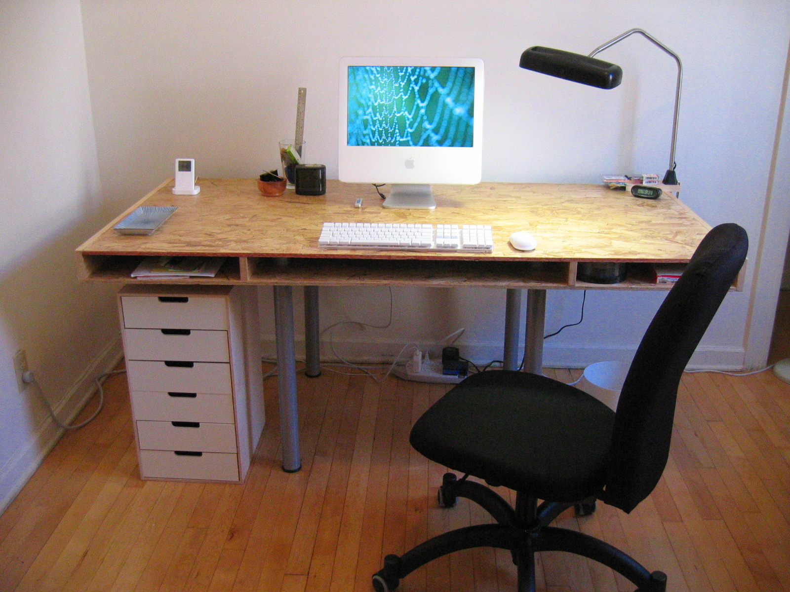 i built this desk, and modeled it off the Blue Dot Chicago Desk. The oriented strand board top was an idea that stemmed from a discussion with Paul Stockamore.